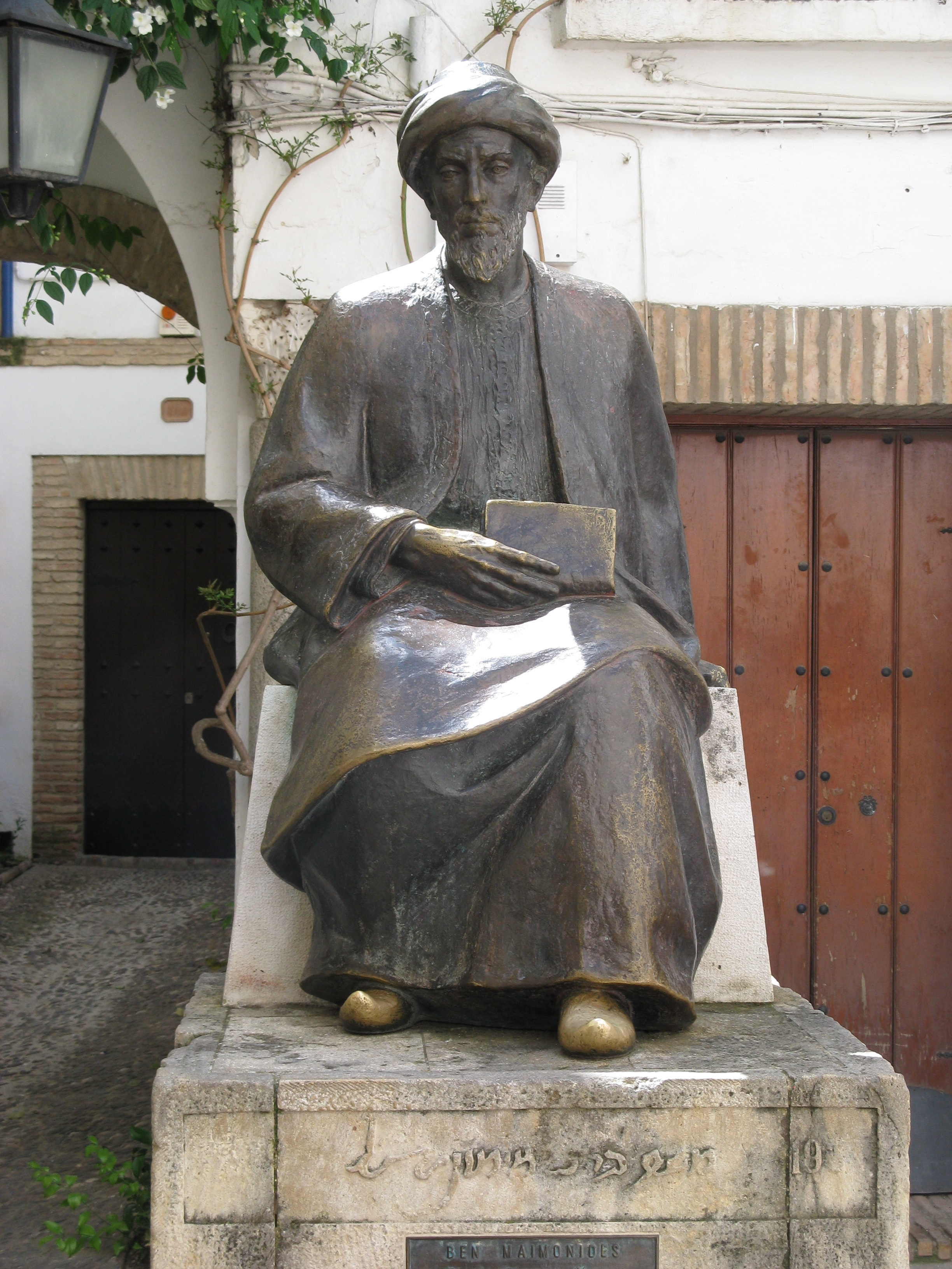 Maimonides Memorial by Amadeo Ruiz Olmos in Córdoba.